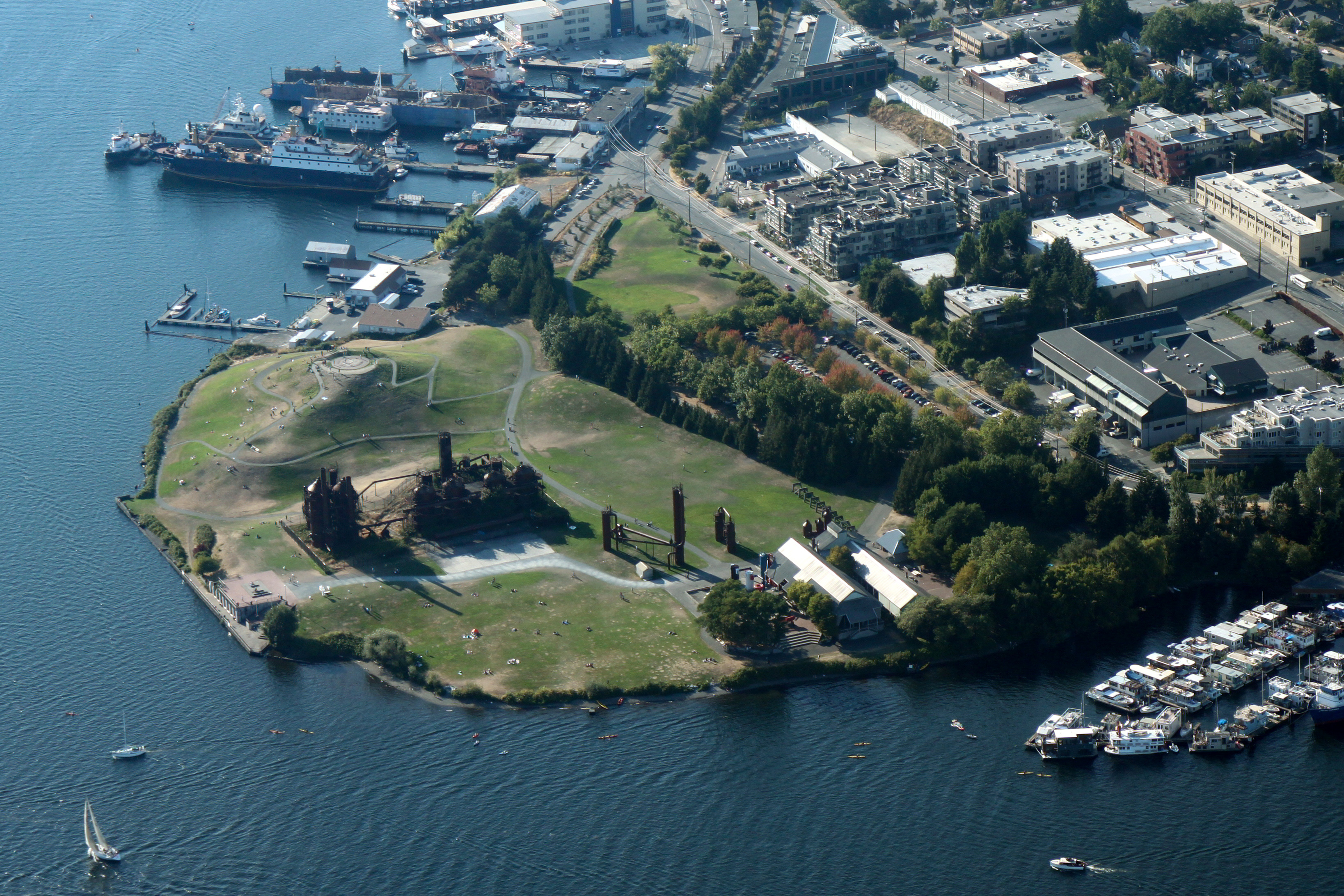 An aerial view of Gas Works Park, Seattle, Washington, USA. Taken on September 5, 2011, from an altitude of about 1,800' MSL.